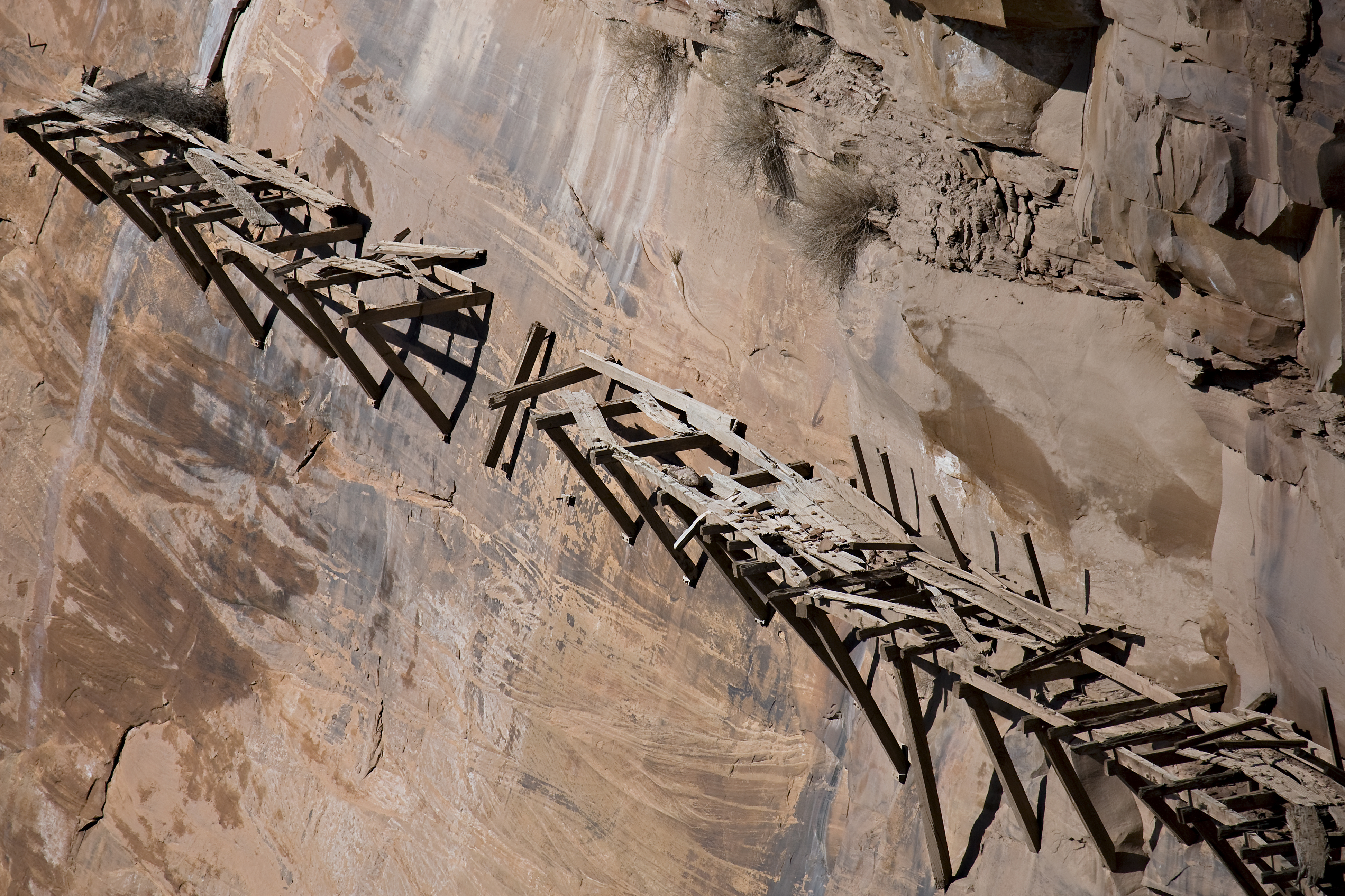 Close up shot of the Hanging Flume near Uravan, Colorado.